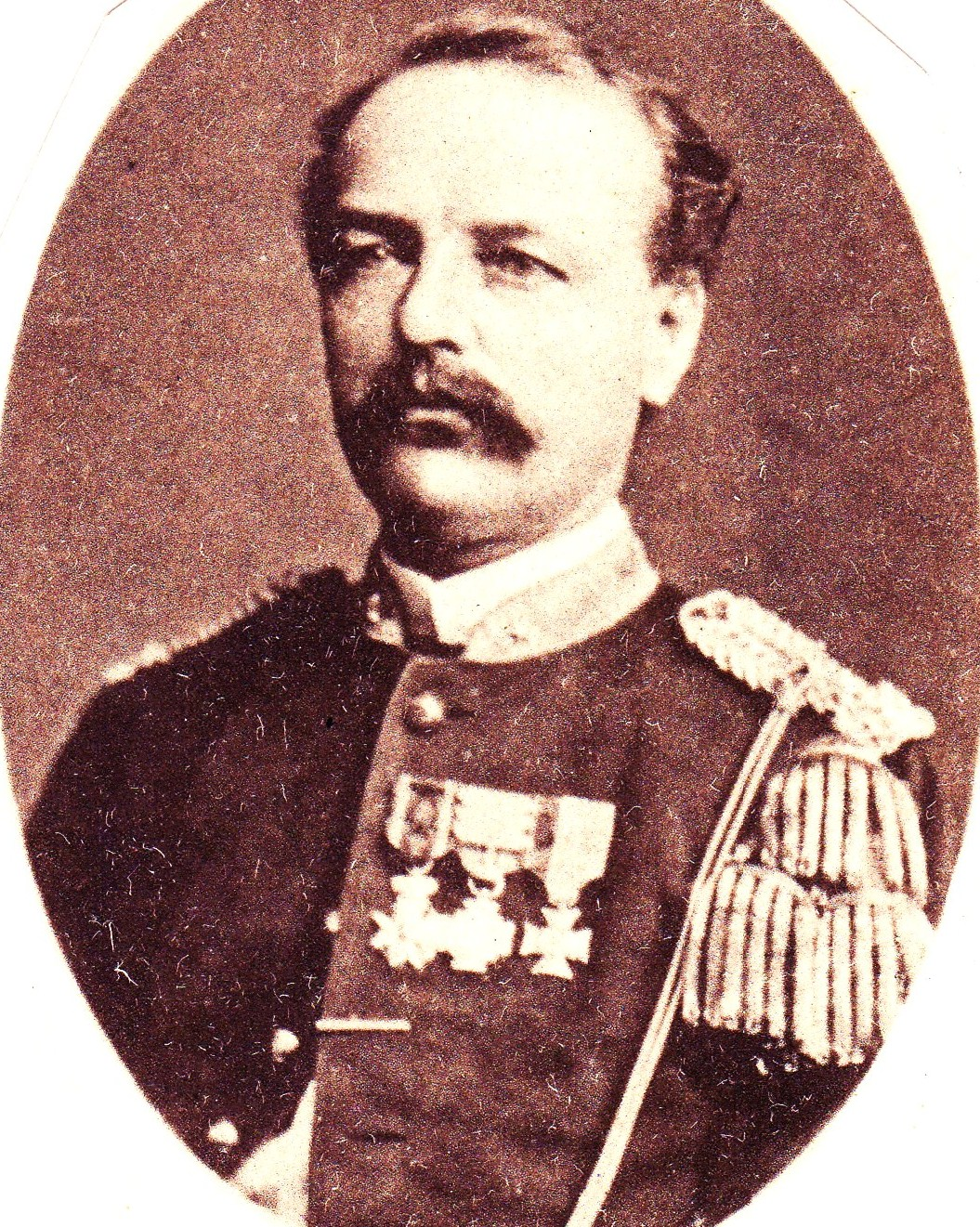 Hendrik Hamakers